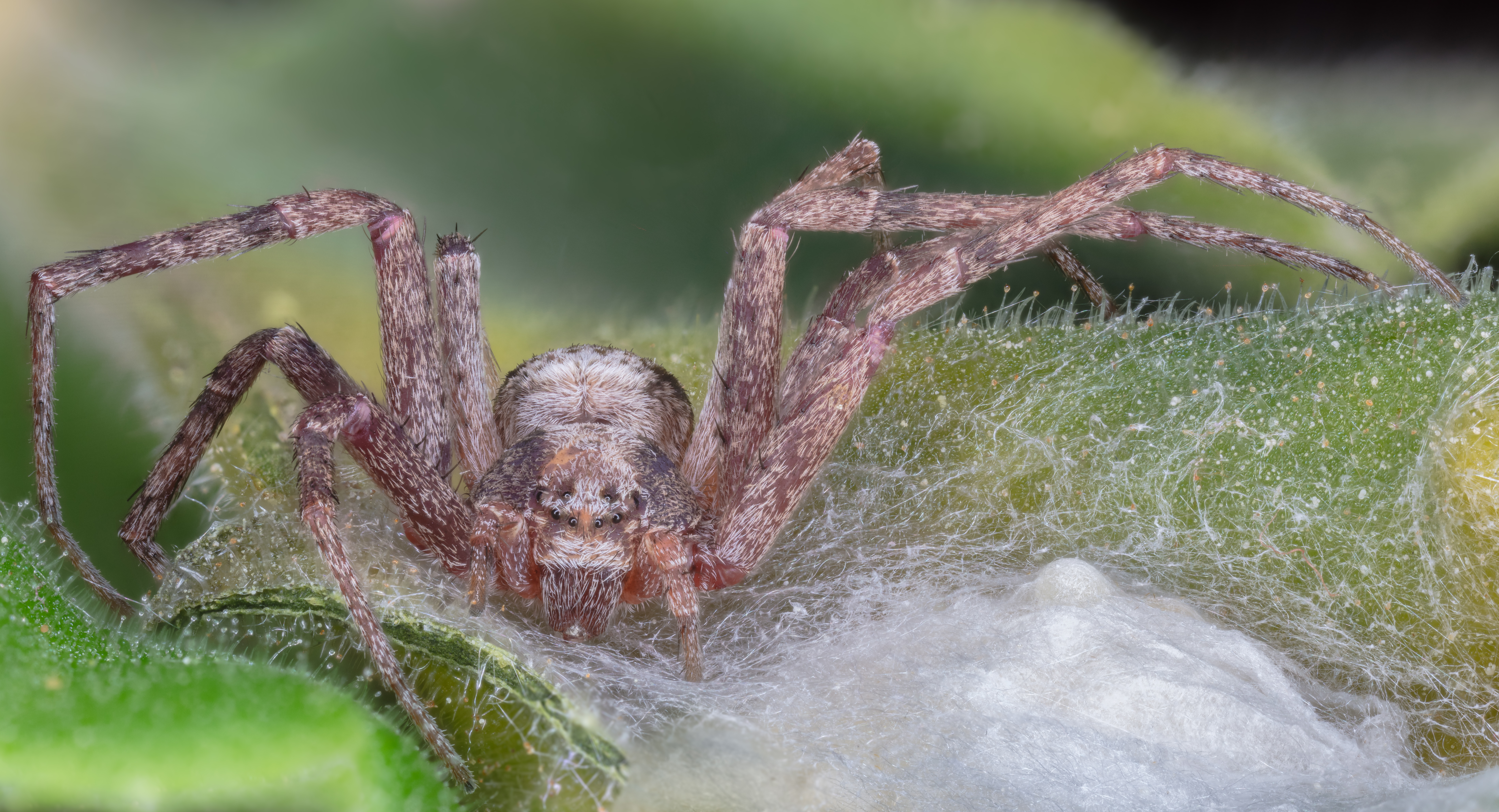 Wandering crab spider (Philodromus aureolus), Hartelholz, Munich, Germany